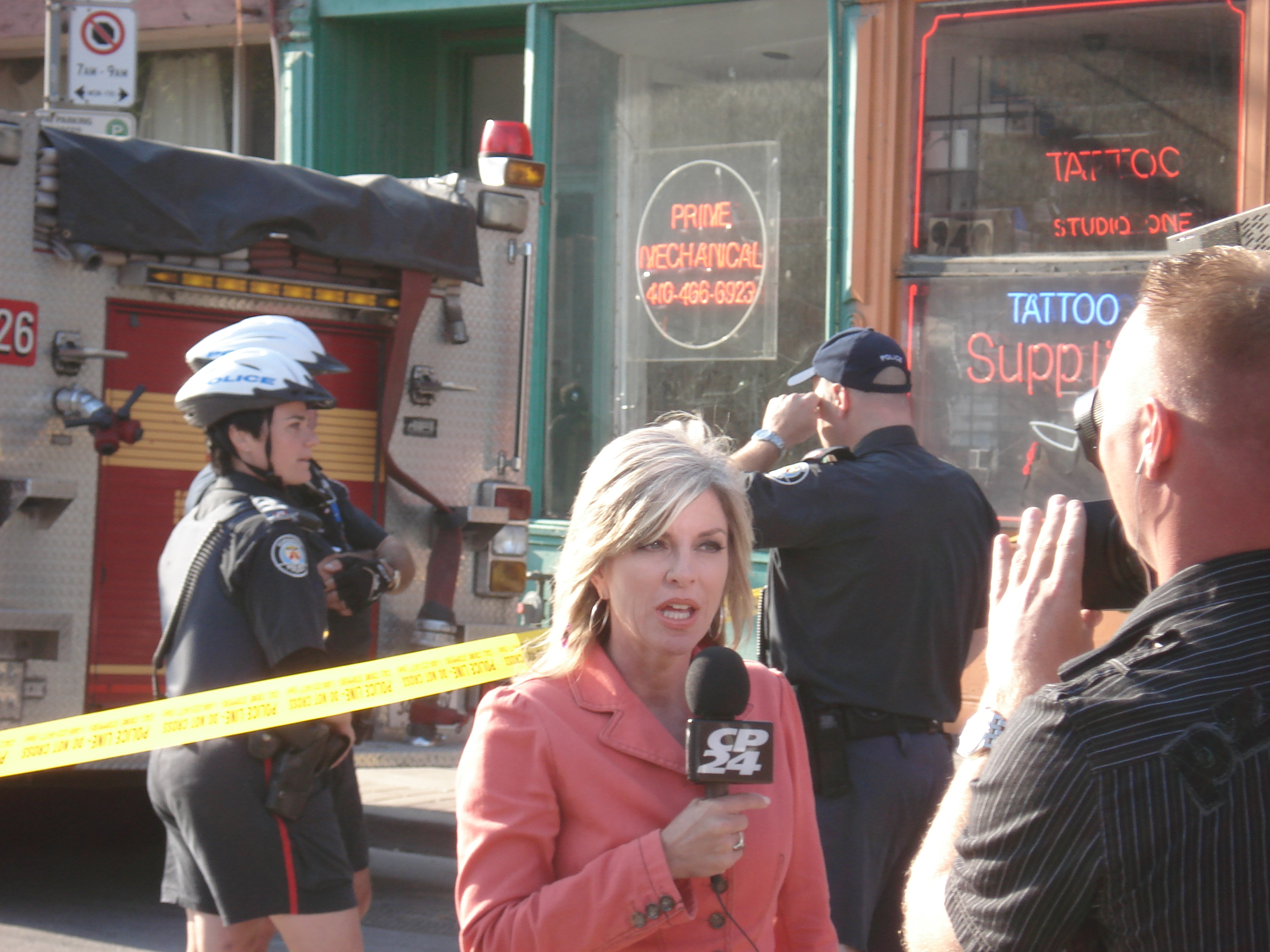 24 Live Shot